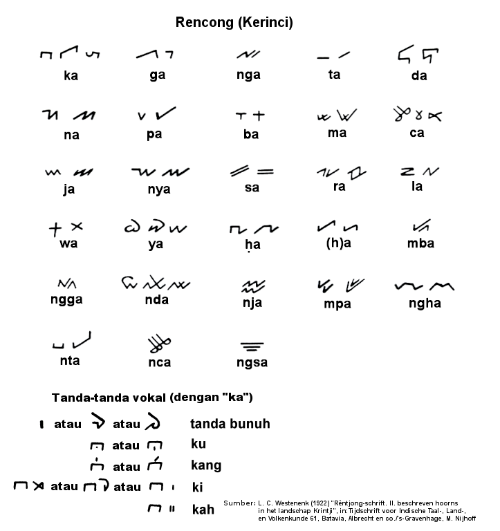 Rencong alphabet (Kerinci) in IndonesianBahasa Indonesia: Aksara Rencong (Kerinci), versi Bahasa Indonesia